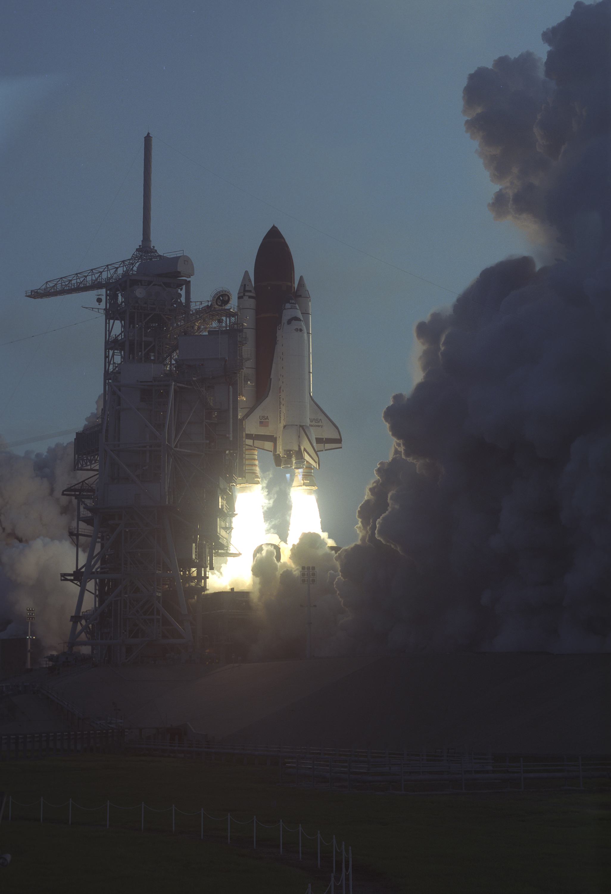 Launched aboard the Space Shuttle Discovery on April 28, 1991 at 7:33:14 am (EDT), STS-39 was a Department of Defense (DOD) mission. The crew included seven astronauts: Michael L. Coats, commander; L. Blaine Hammond, pilot; Guion S. Buford, Jr., mission specialist 1; Gregory J. Harbaugh, mission specialist 2; Richard J. Hieb, mission specialist 3; Donald R. McMonagle, mission specialist 4; and Charles L. Veach, mission specialist 5. The primary unclassified payload included the Air Force Program 675 (AFP-675), the Infrared Background Signature Survey (IBSS), and the Shuttle Pallet Satellite II (SPAS II).